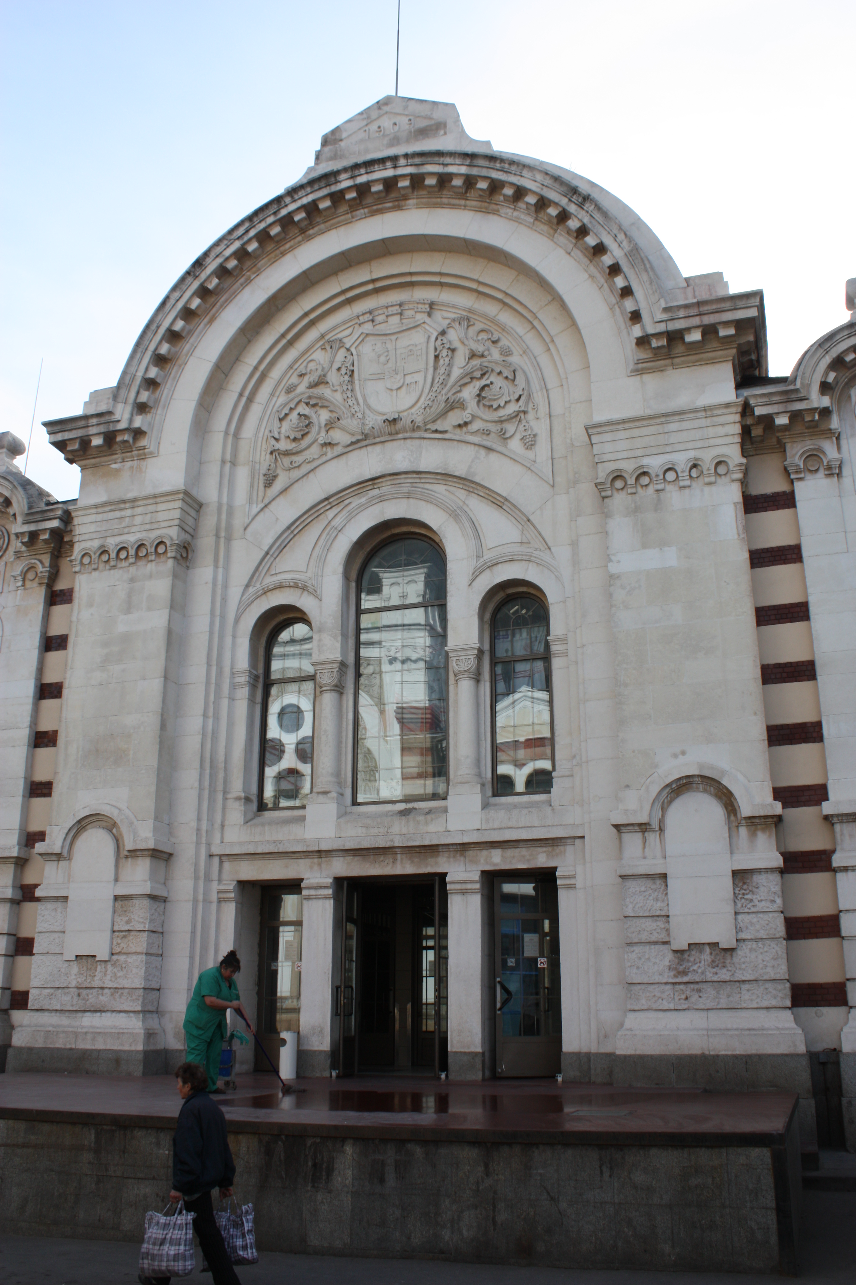 Central Market Hall in Sofia, Bulgaria